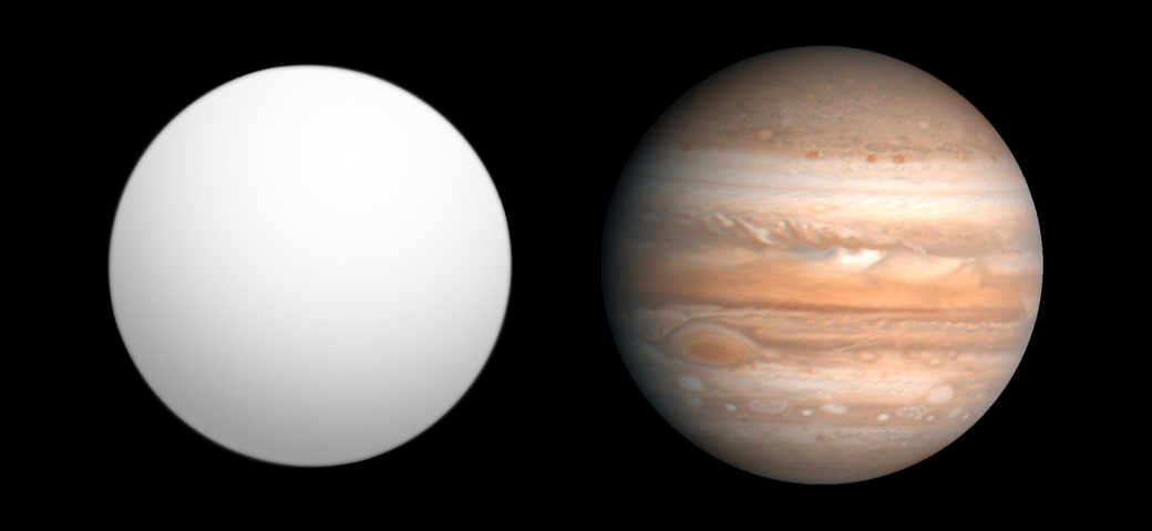 Comparison of best-fit size of the exoplanet WASP-7 b with the Solar System planet Jupiter, as reported in the Open Exoplanet Catalogue[1] as of 2010-09-30. ↑ Open Exoplanet Catalogue (2010-09-30). Retrieved on 2010-09-30.